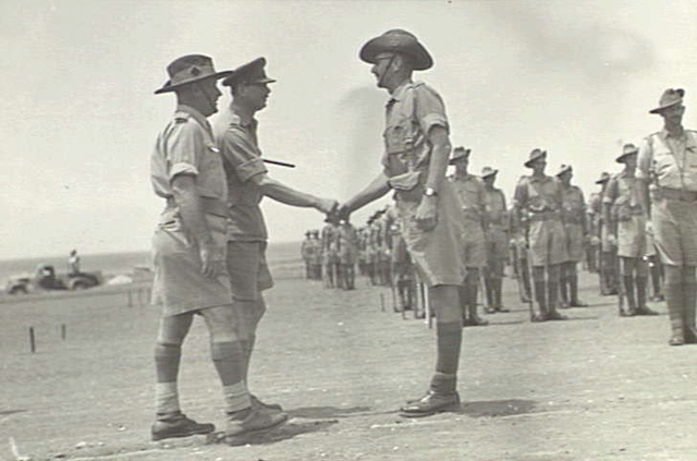 Original description from Australian War Memorial: TRIPOLI, SYRIA. 1942-05-19. REVIEW OF THE 9TH AUSTRALIAN DIVISION BY HIS ROYAL HIGHNESS THE DUKE OF GLOUCESTER. LIEUT-COLONEL R.J.H. RISSON, COMMANDER ROYAL ENGINEERS 9TH AUSTRALIAN DIVISION, SHAKING HANDS WITH THE DUKE OF GLOUCESTER BEFORE THE DUKE INSPECTS THE ENGINEERS.